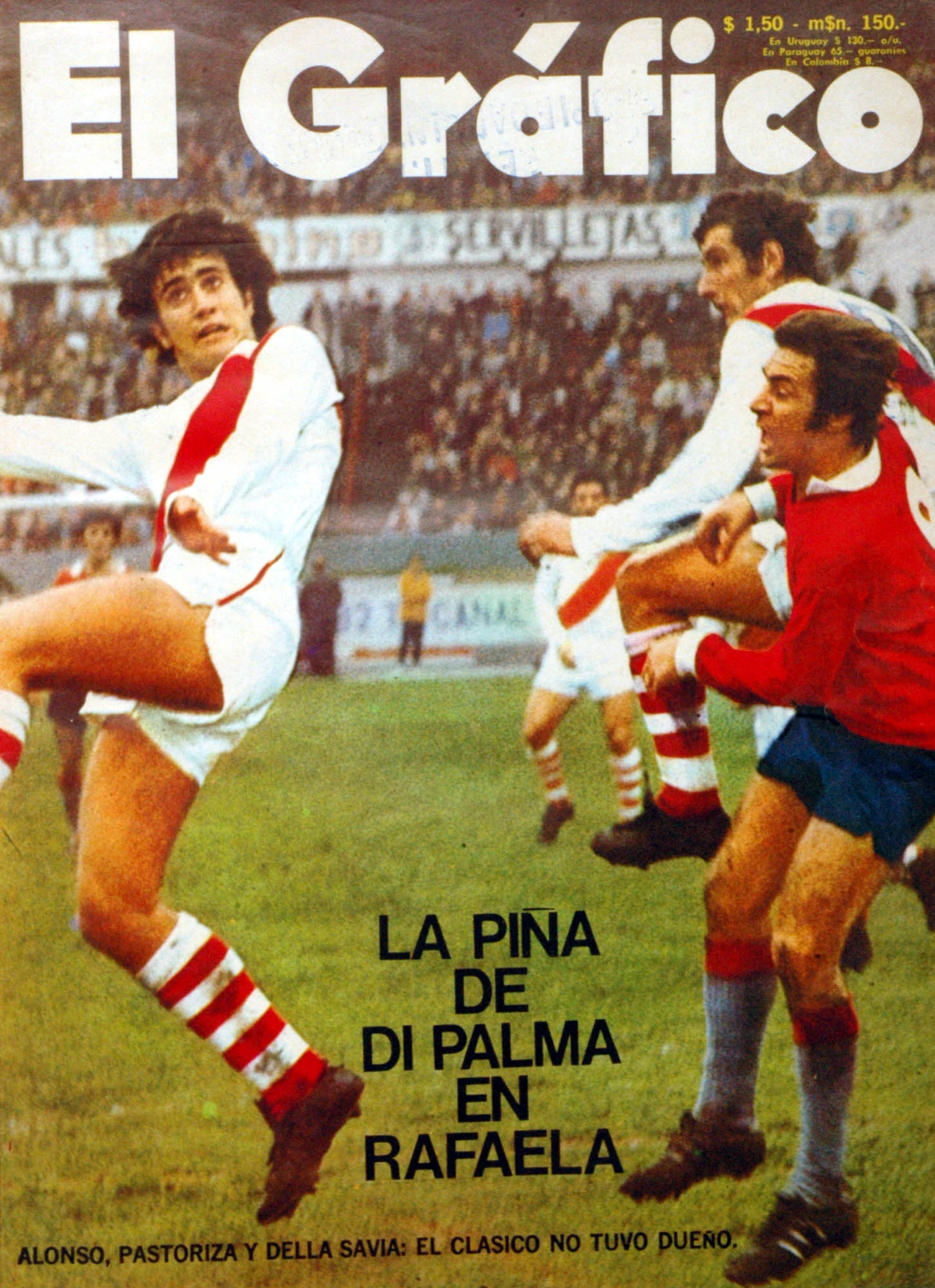 River (1) vs Independiente (1), Alonso and Pastoriza displayed.